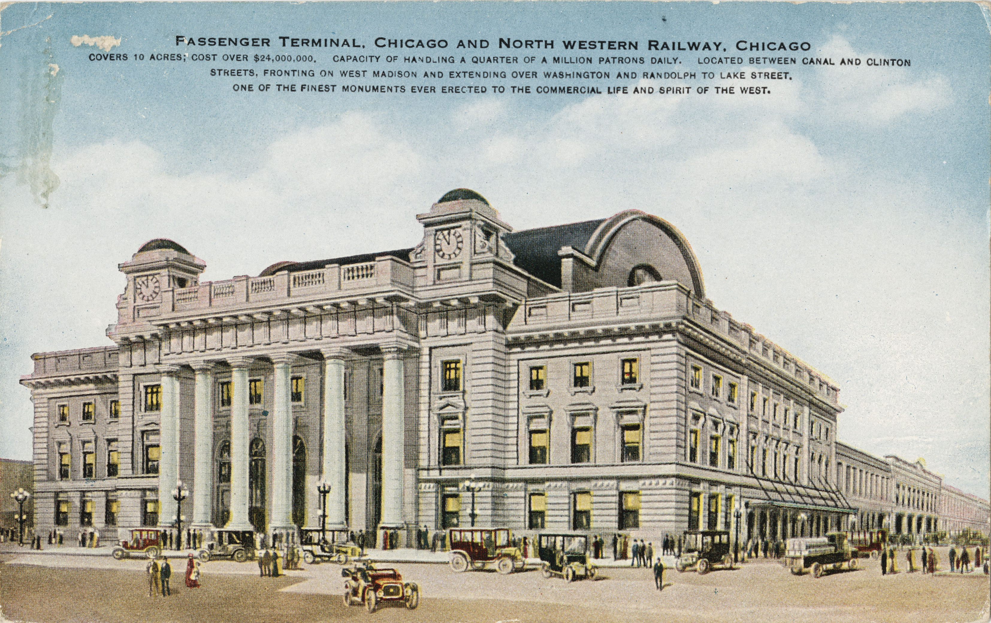 From the University of Maryland Digital Collections website: "Street view of the passenger terminal of the Chicago and North Western Railway, Chicago, Illinois, circa 1907-1914. Caption reads: "Covers 10 acres; cost over $24,000,000. Capacity of handling a quarter of a million patrons daily. Located between Canal and Clinton streets, fronting on West Madison and extending over Washington and Randolph to Lake Street. One of the finest monuments ever erected to the commercial life and spirit of the West." Postmark date: June 25, 1914; Postcard number: 1925."